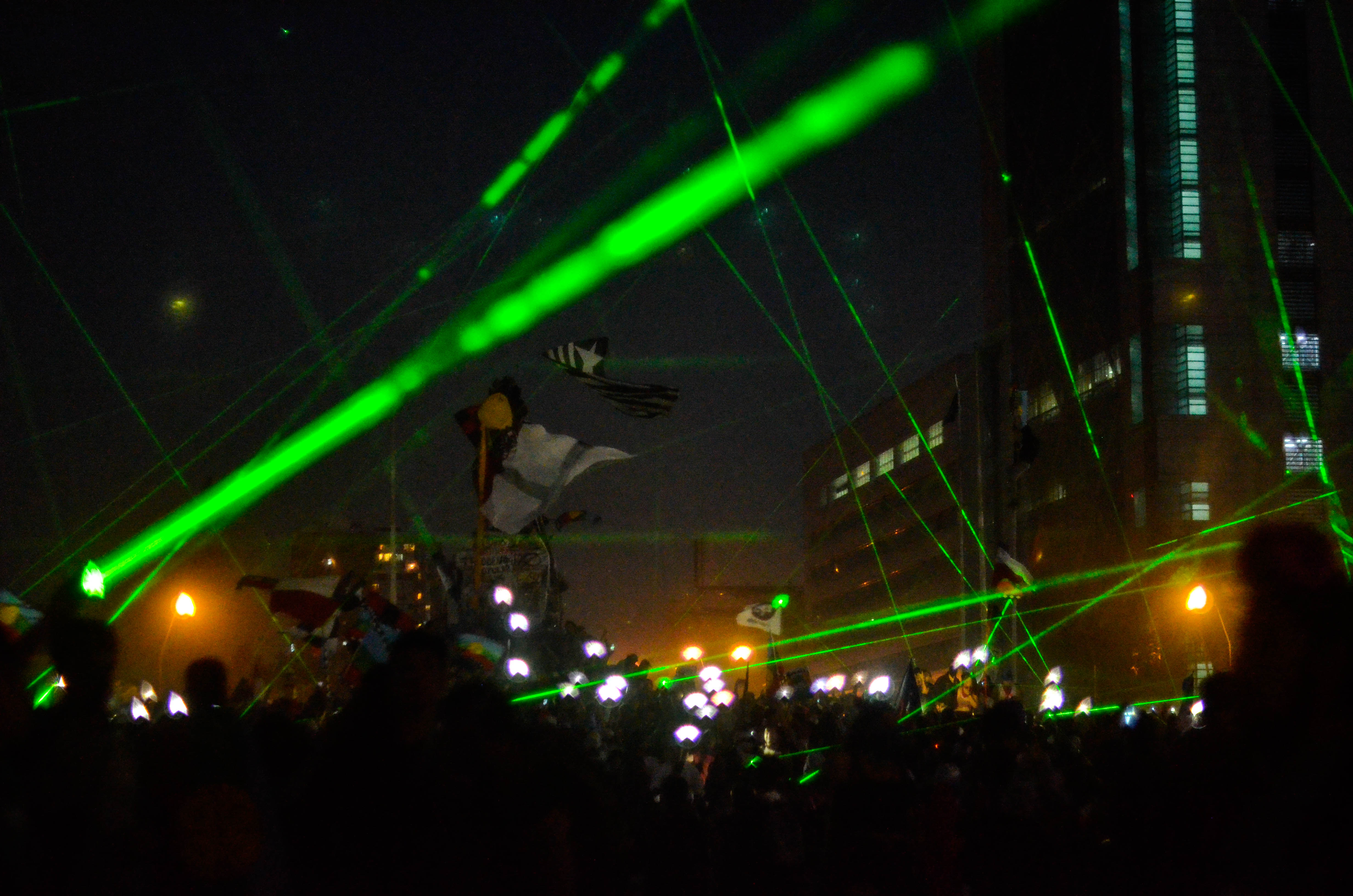 Protesters light up the sky with green laser rays in Plaza Dignidad